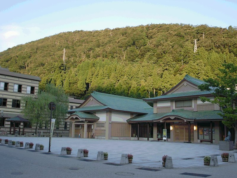 Kikuno-yu, public hot spring bath, and Yamanaka-za hall in central plaza in early morning right after sun rise over surrounded mountains in Yamanaka onsen, Kaga city, Ishikawa-pref., Japan.